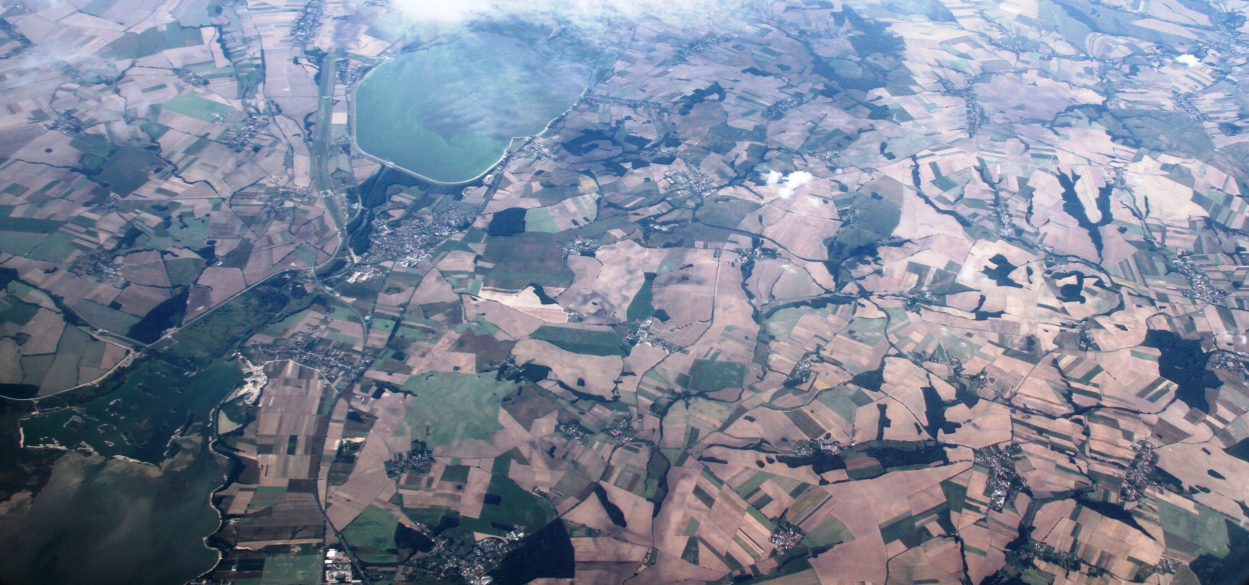 Aerial view over the Otmuchowskie Lake (Otmuchow lake), in Southwestern Poland. Partly visible is the Nysa Lake, Close to the city of Nysa.